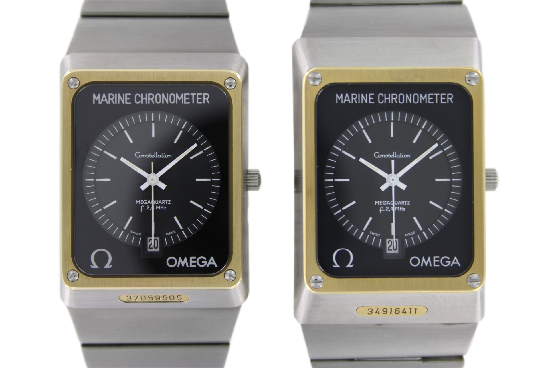 Omega Constellation Megaquartz F2.4 Marine Chronometer comparison calibre 1511 and 1516